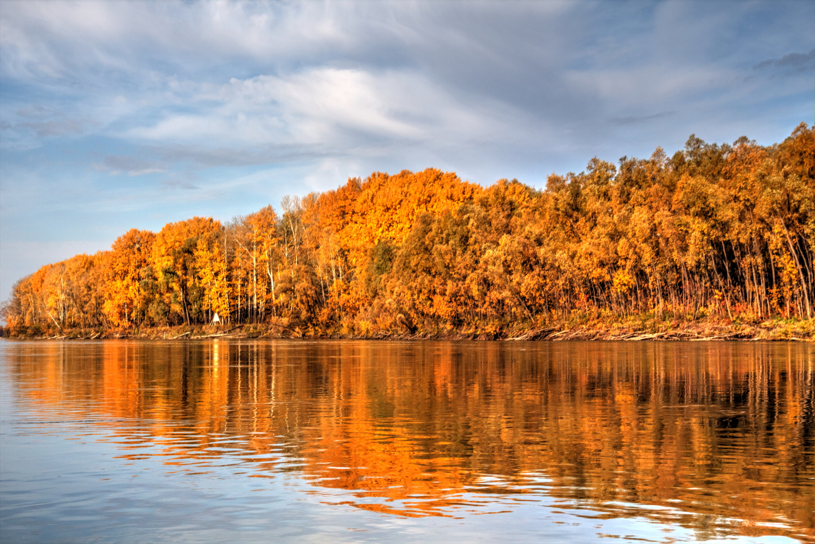 Autumn in Bystroistokskiy district of Altai krai Russia